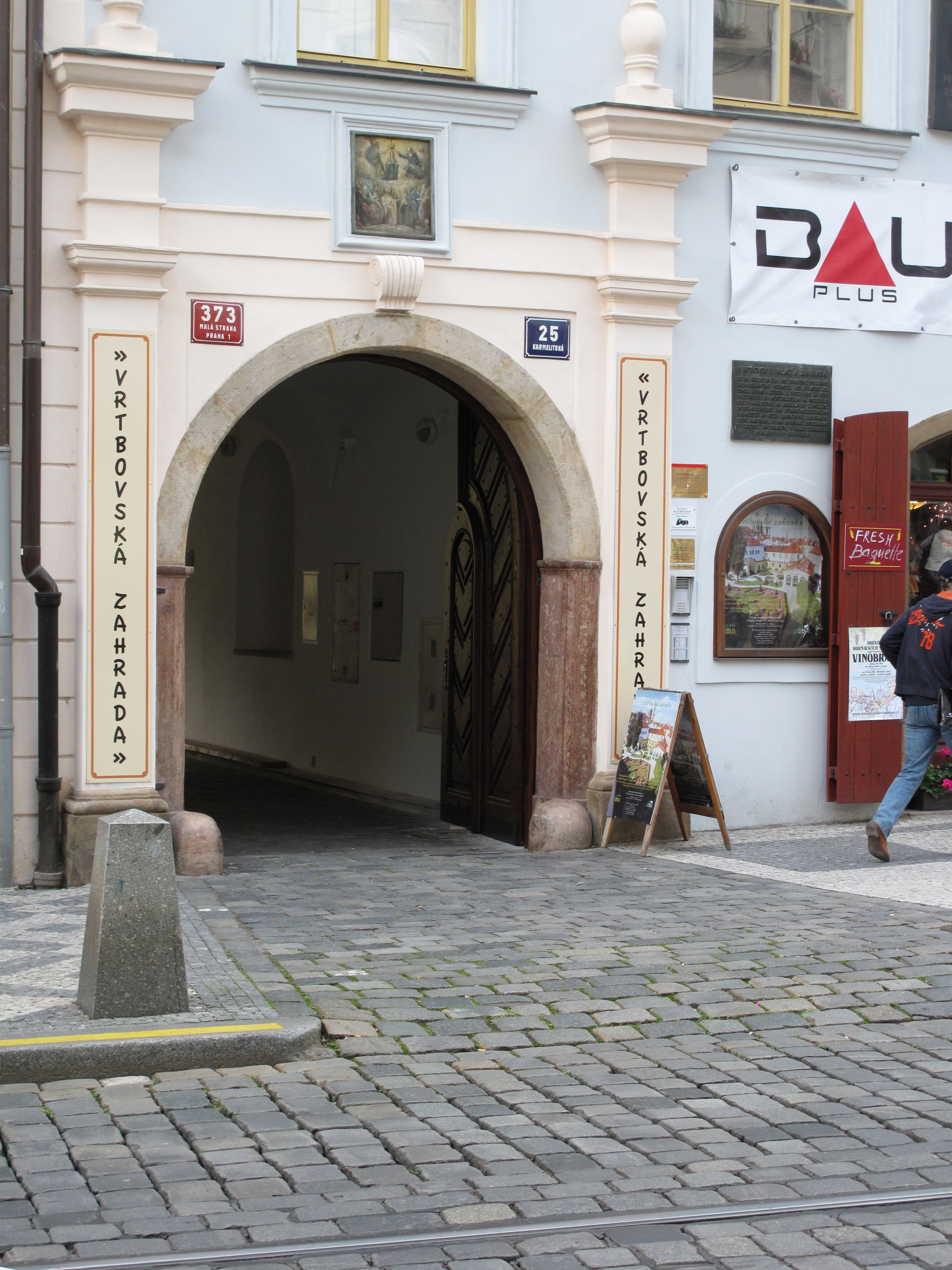 Vrtba Garden - different parts, Prague, Lesser Quarter, Czech Republic.